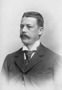 A picture of the young antioqueño Industrialist, Alejandro Echavarría Isaza